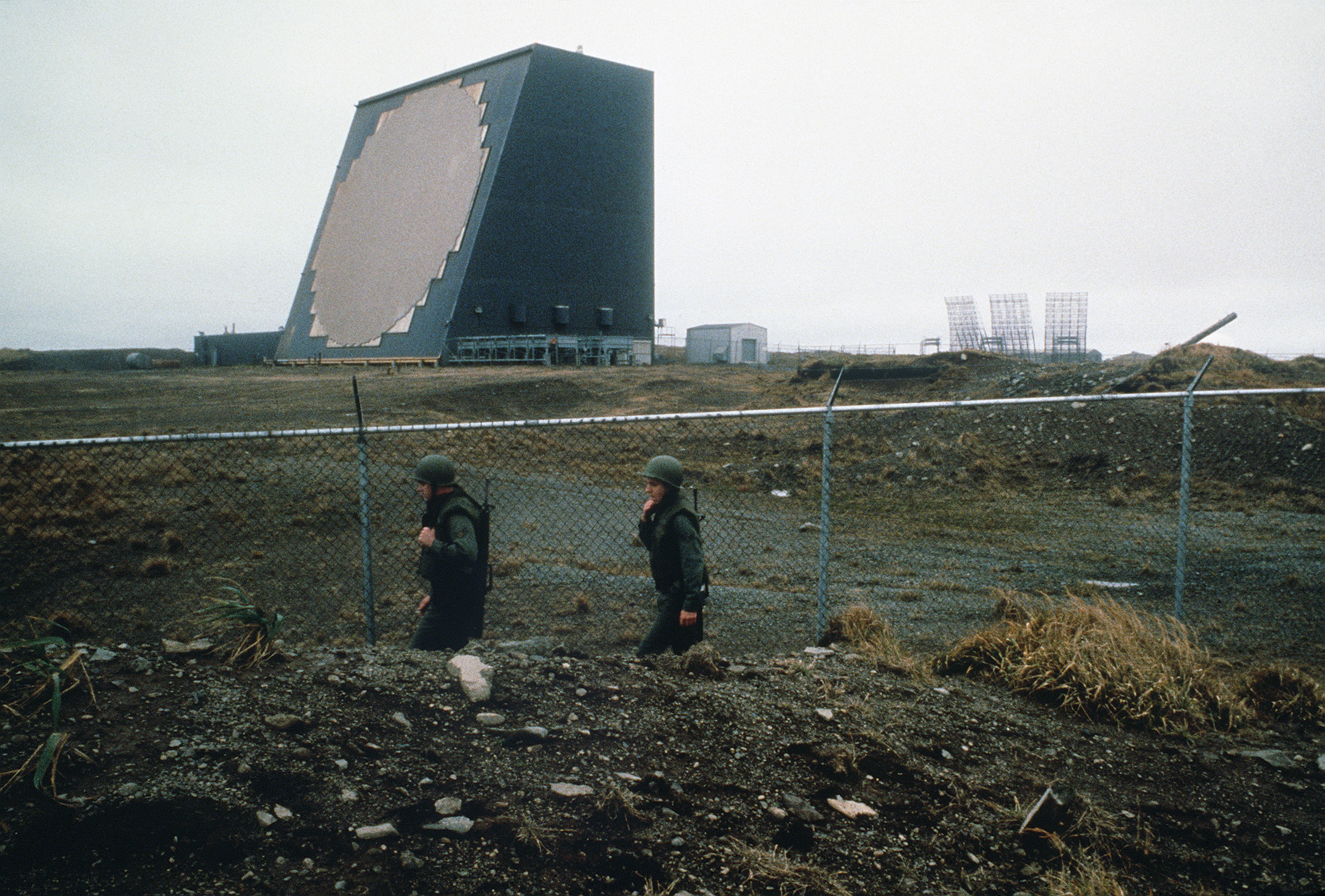 Security policemen patrol the area around the Cobra Dane radar system operated by the 16th Surveillance Squadron. Location: SHEMYA AIR FORCE BASE, ALASKA (AK) UNITED STATES OF AMERICA (USA) (Older AN/FPS-17 radar antennas appear in the background)